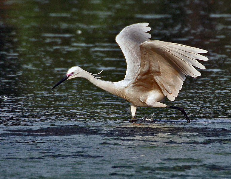 Little Egret Egretta garzetta in Kolkata, West Bengal, India.